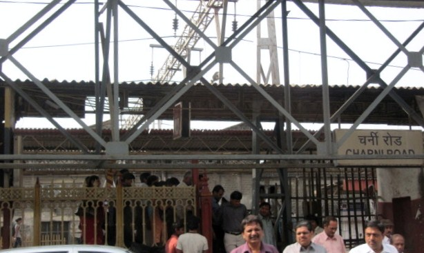 Charni Road Railway Station (E), Mumbai, India